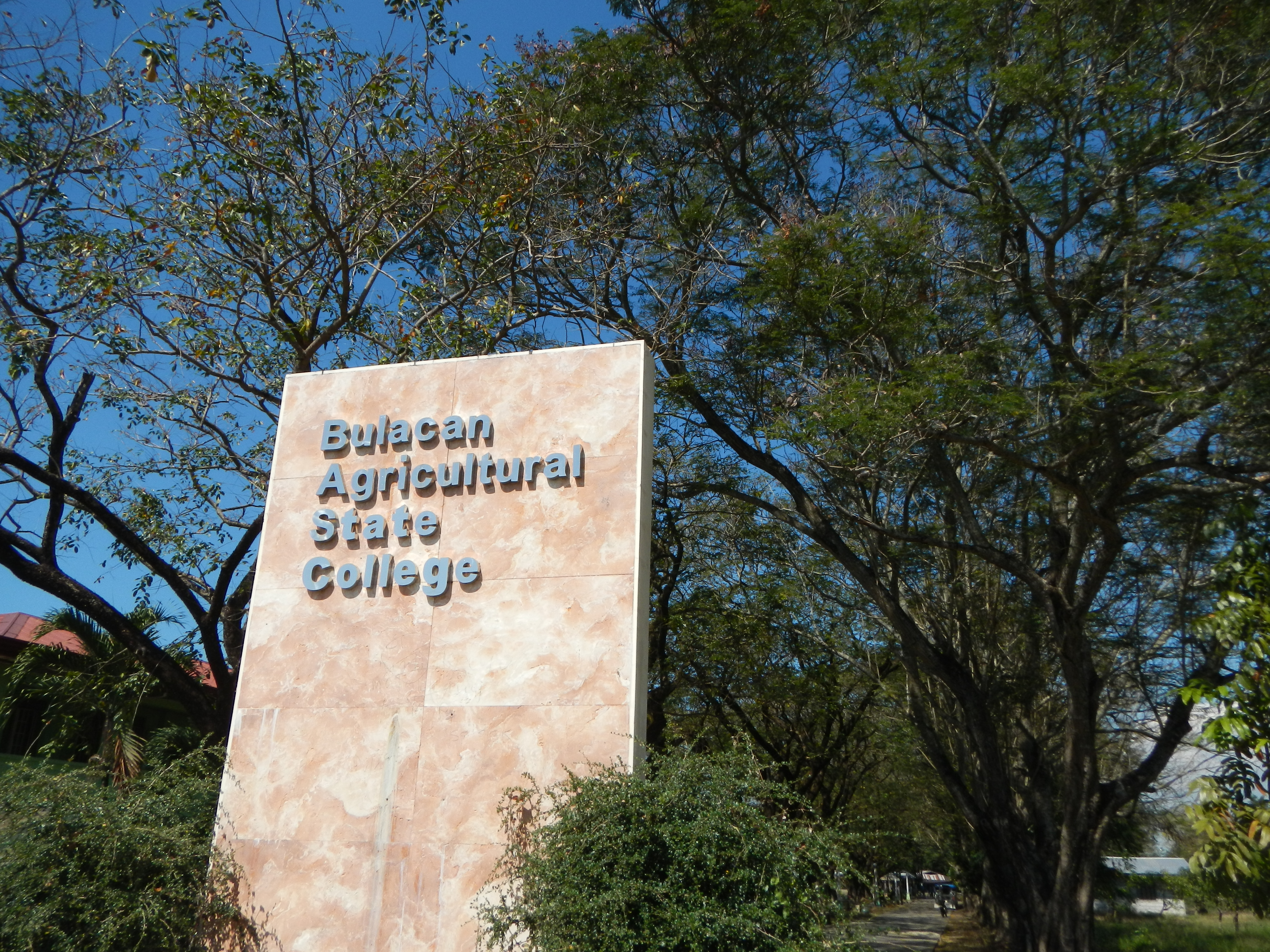 Bulacan Agricultural State College[1] is an agricultural state college located in San Ildefonso, Bulacan, the Philippines. Its former name is Bulacan National Agricultural State College.[2] [3][4] [5]San Ildefonso, Bulacan